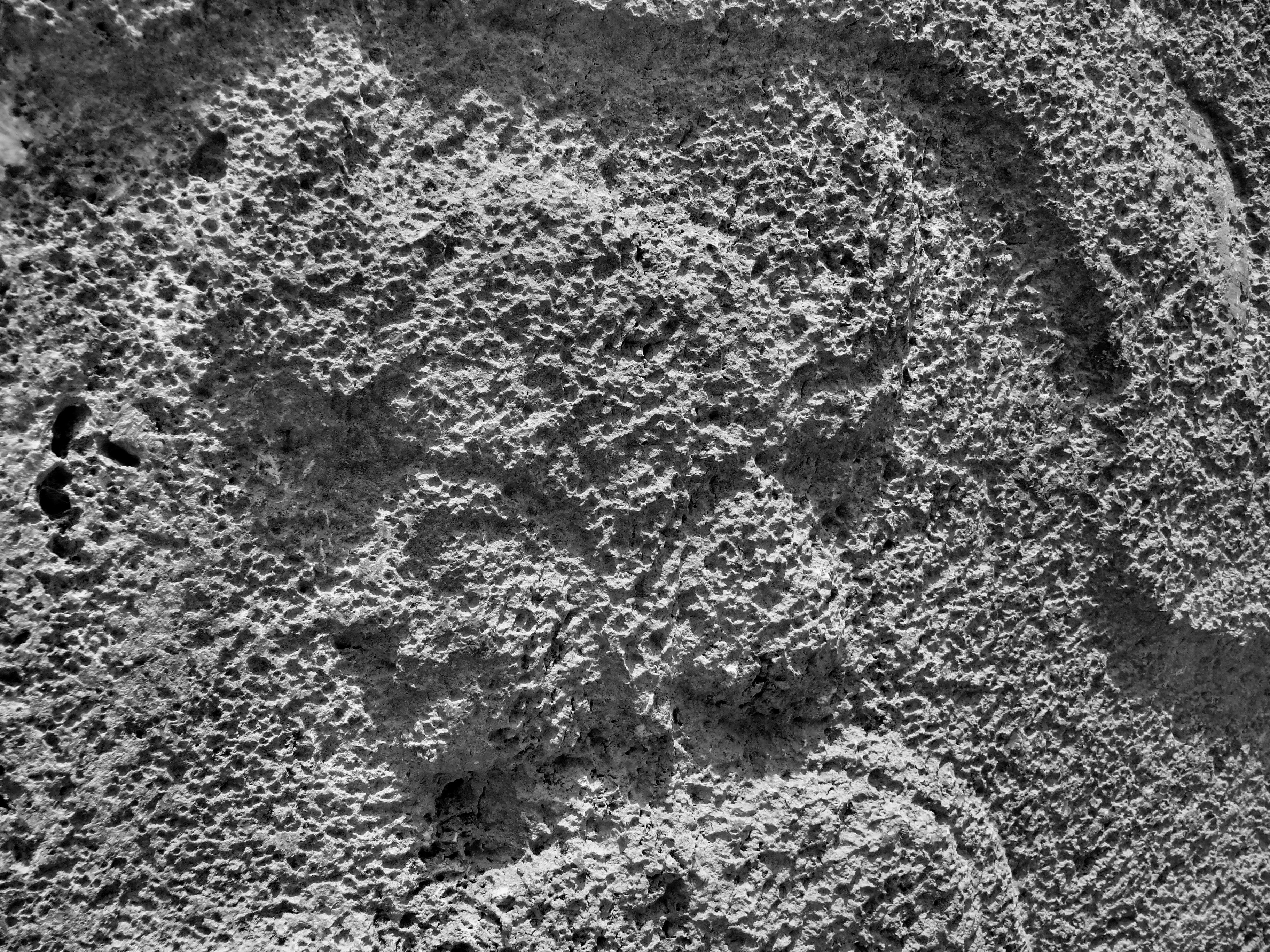 detail of the head of the female enthroned divinity (Napirisha?) wearing a horned hat on the central panel of the Elamite Rock relief of Kurangun. Above her, a "ribboned" cloud of either smoke or vapor. Taken in Seh Talan village, Fahlian district, Vicinity of Noorabad, Fars province, Iran, May 2009.